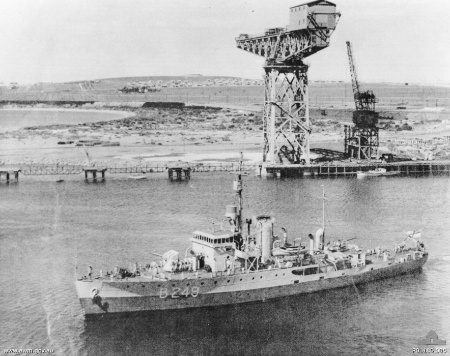 Whyalla, South Australia. HMAS PIRIE (B249) leaving Whyalla. In the background are cranes used for fitting out ships and on the distant hillside is the small town of Whyalla. HMAS Pirie was sold to Turkey in 1946 and became TCG Amasra.